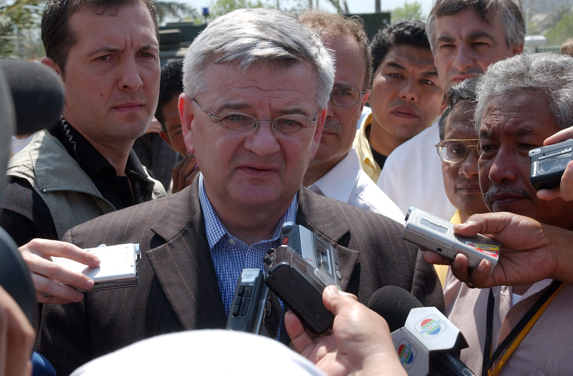 Banda Aceh, Indonesia (Feb 11, 2005) - German Foreign Minister, Joschka Fischer, takes questions from the press after touring the University Hospital in Banda Aceh, Indonesia. Foreign Minister Fischer visited the hospital to meet with press and see how the German medical teams deployed to the region are helping the Indonesian locals. U.S. Navy photo by Photographer's Mate 2nd Class Timothy Smith (RELEASED)